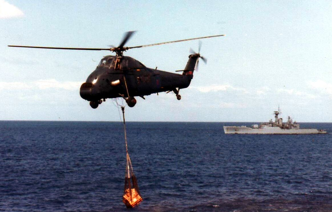 Wessex helicopter transferring stores (Vertrep) at Ascension May 1982.